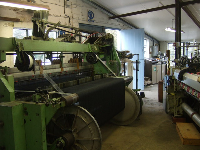 Loom at Melin Tregwynt There are several of these large looms, once run by waterpower but now by electricity. They are used for making the traditional Welsh wool blankets, of which part can be seen emerging from the loom on the right.